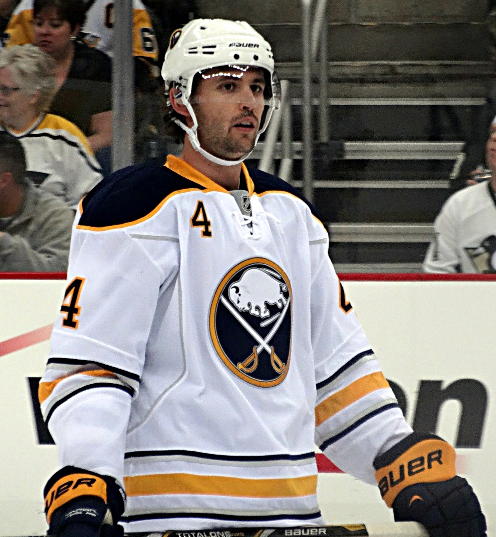 Buffalo Sabres defenseman Jamie McBain skates against the Pittsburgh Penguins, October 5, 2013, at Consol Energy Center in Pittsburgh, PA.